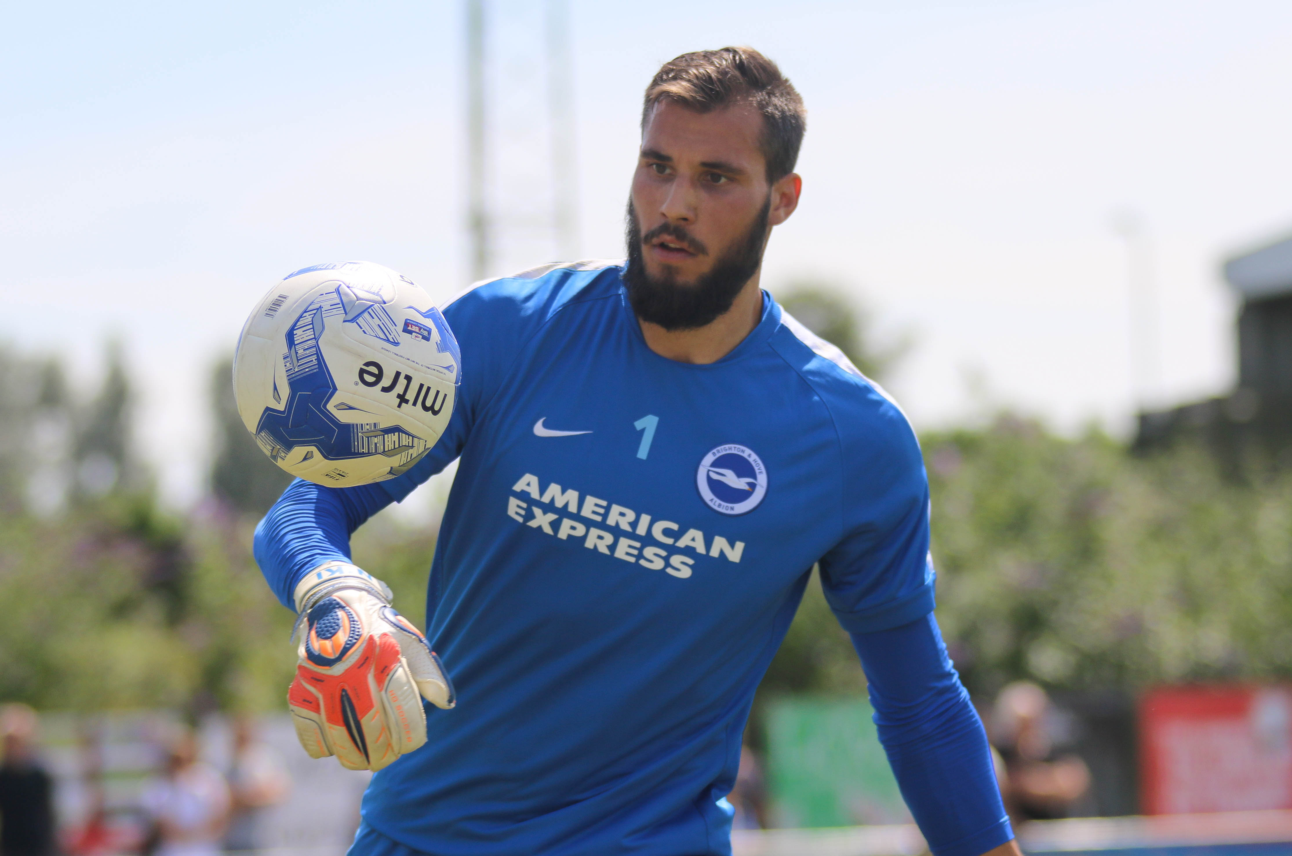 Lewes 0 BHA 0 18 July 2015-174.jpg